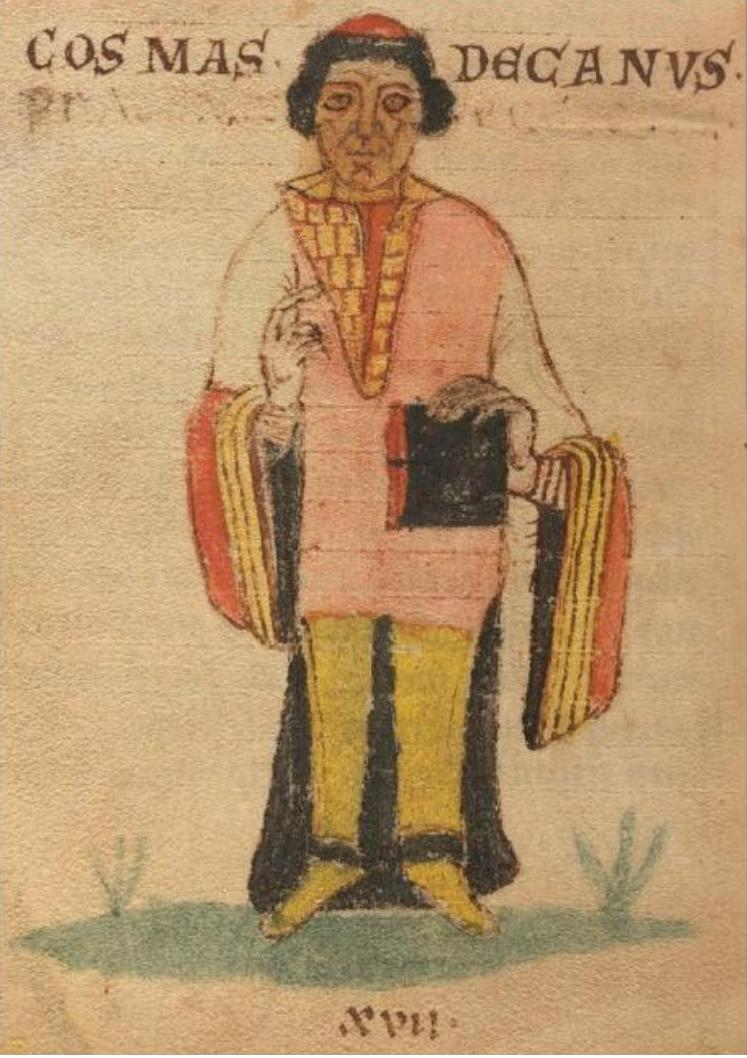 Picture is from Lipský rukopis, one of the earliest manuscripts of the Cosmas chronique, written end of 12. century. It was stored in Leipzig, Germany, from 1839 until the 2. world war.